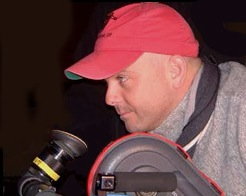 Spencer Antle on location Toronto, Canada directing Shoppers Drug Mart commercial.